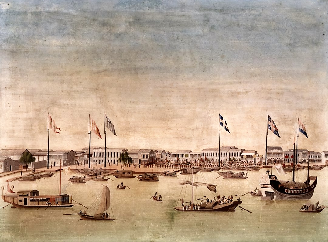 The Hoppo (Canton Customs Official) Returning By Boat on an Official Call on the East India Companry